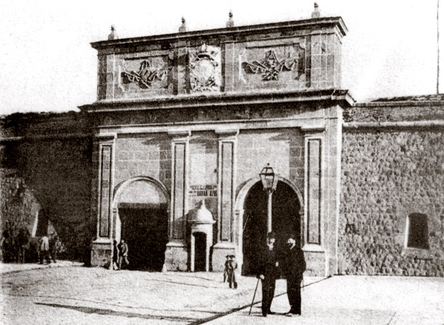 The Puerta de Madrid, monumental entrance to the 18th century in the Spanish city of Cartagena located in what is now España Square. Together with the other gates present in the city, was demolished in 1902 to facilitate the works of ensanche, during the tenure of mayor Ángel Bruna and with the authorization of a royal order issued by king Alfonso XIII.